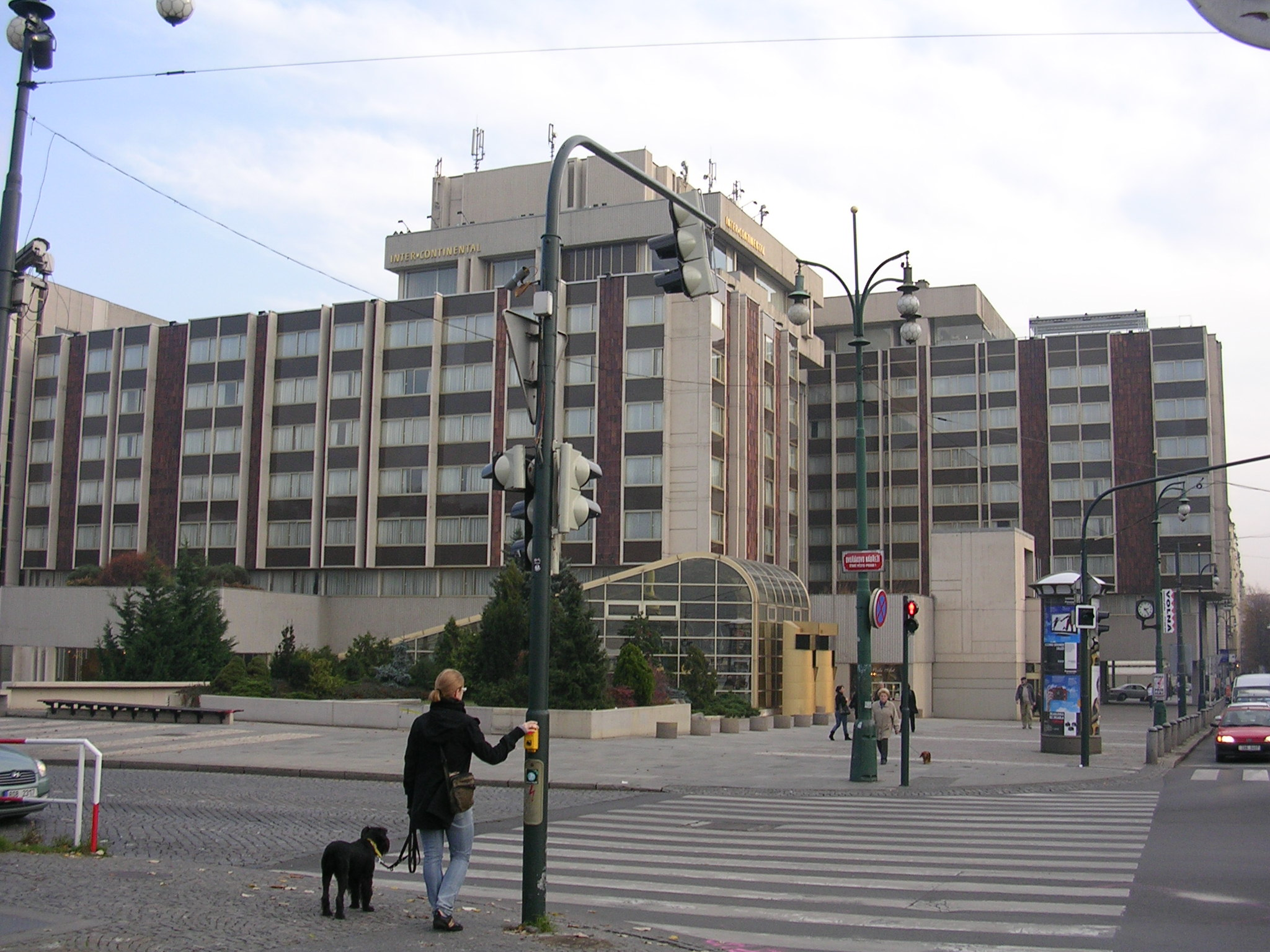 Prague, Intercontinental Hotel.